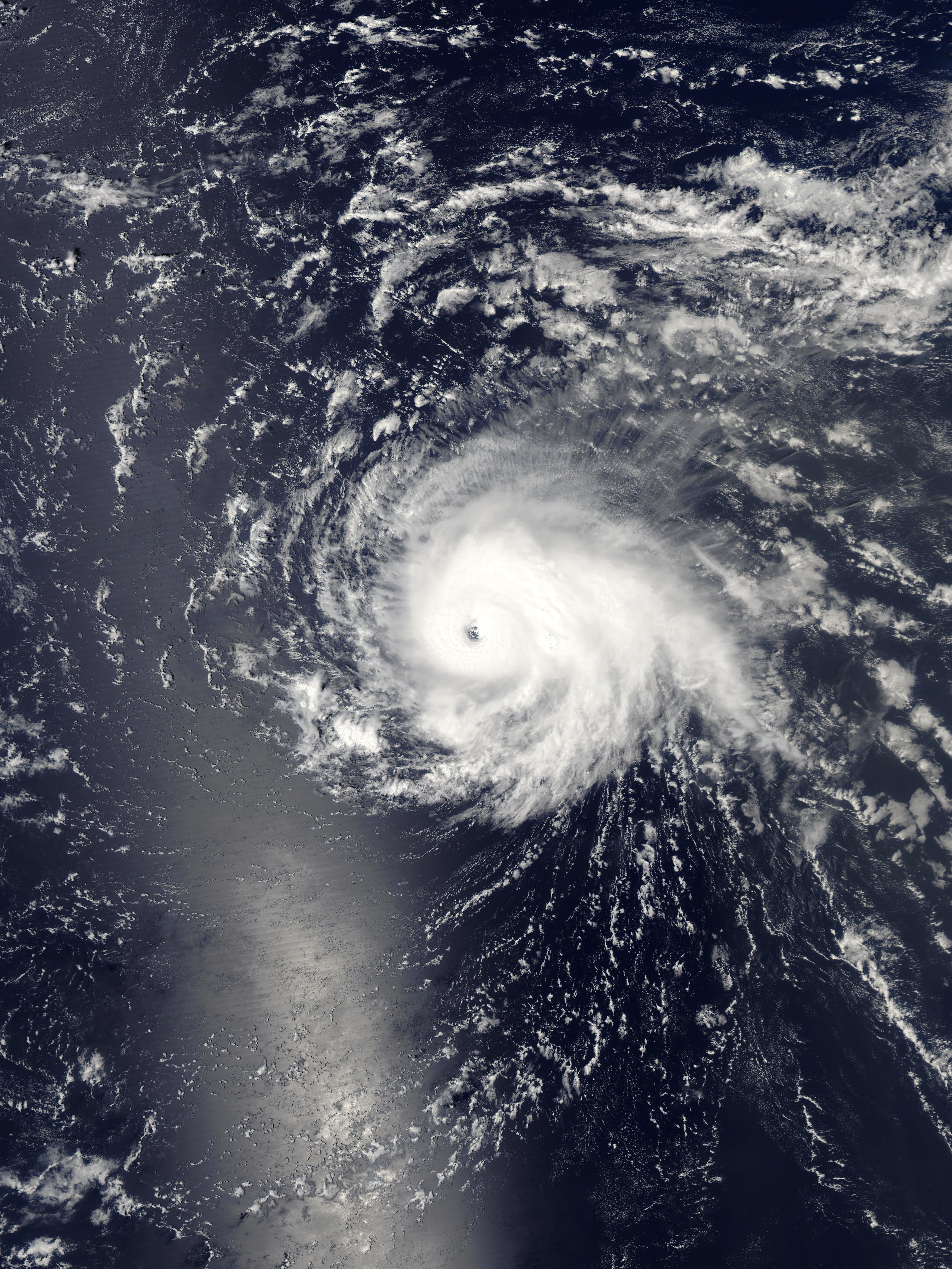 Hurricane Florence on September 5, 2018